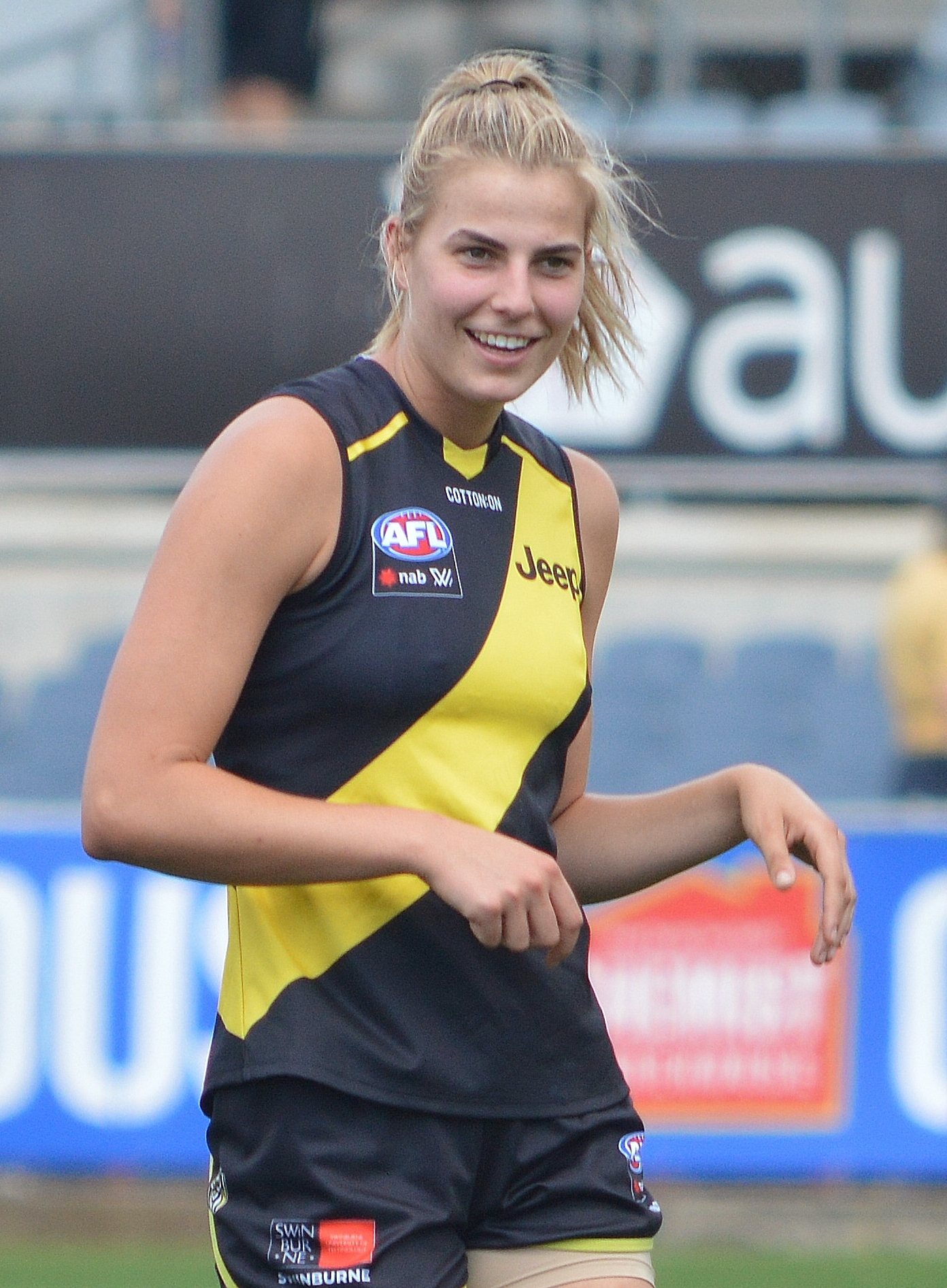 Alice Edmonds with Richmond during the round 3, 2020 AFL Women's match against North Melbourne at Ikon Park.